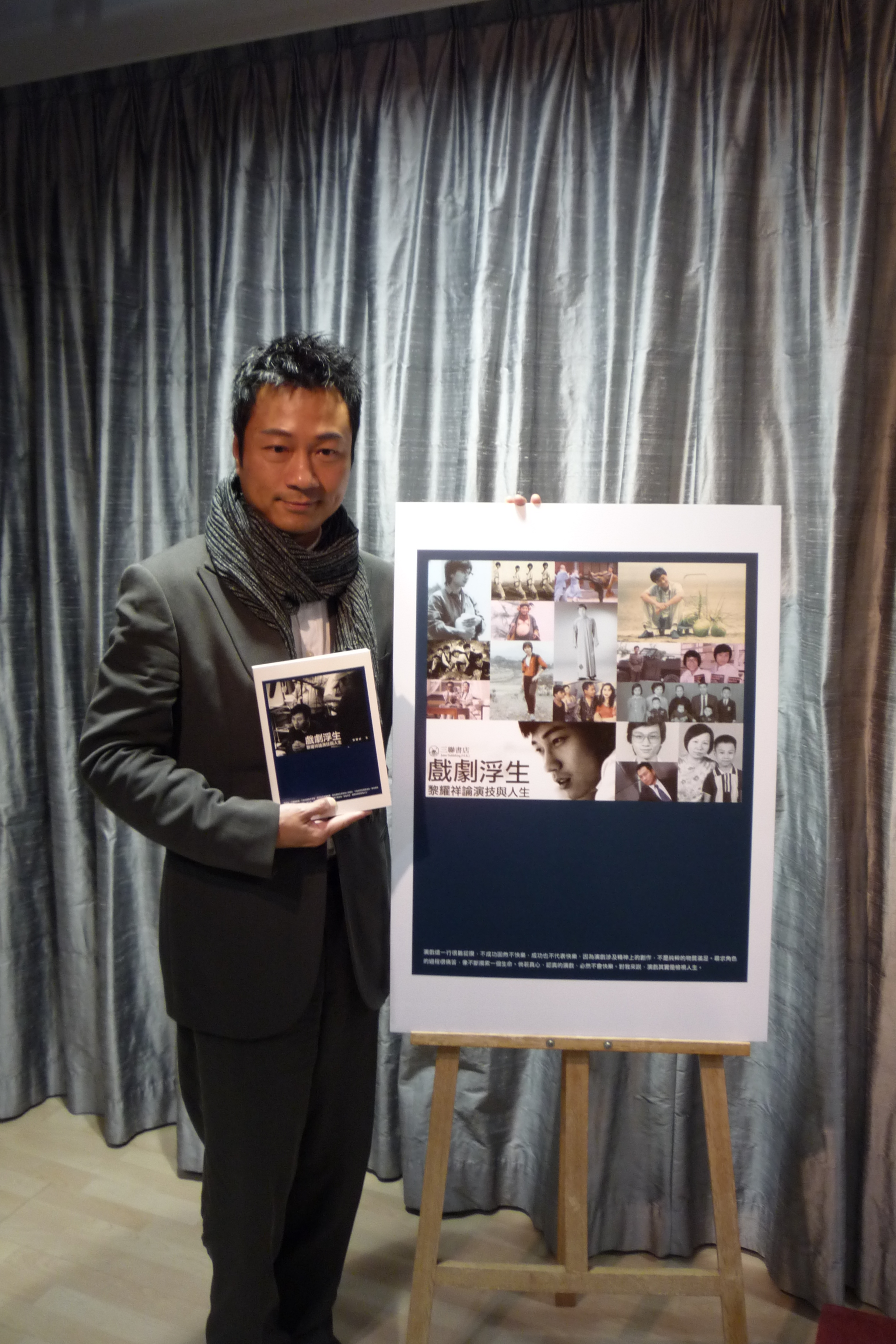 Wayne Lai attending the press con of his own book.